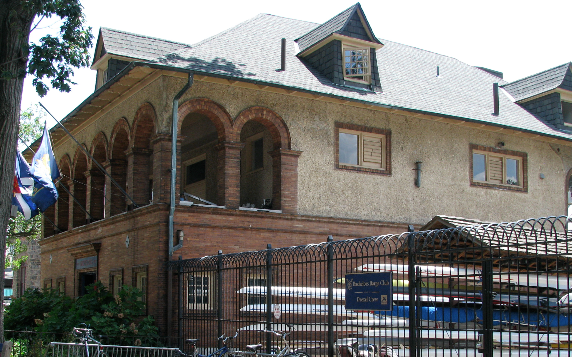 Bachelors Barge Club #6 Boathouse Row with sign for Drexel Crew More images